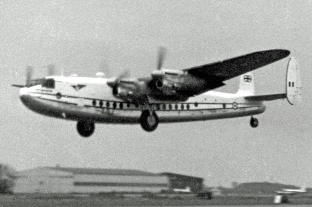 Avro York of Air Charter Ltd taking off from its London Stansted base.